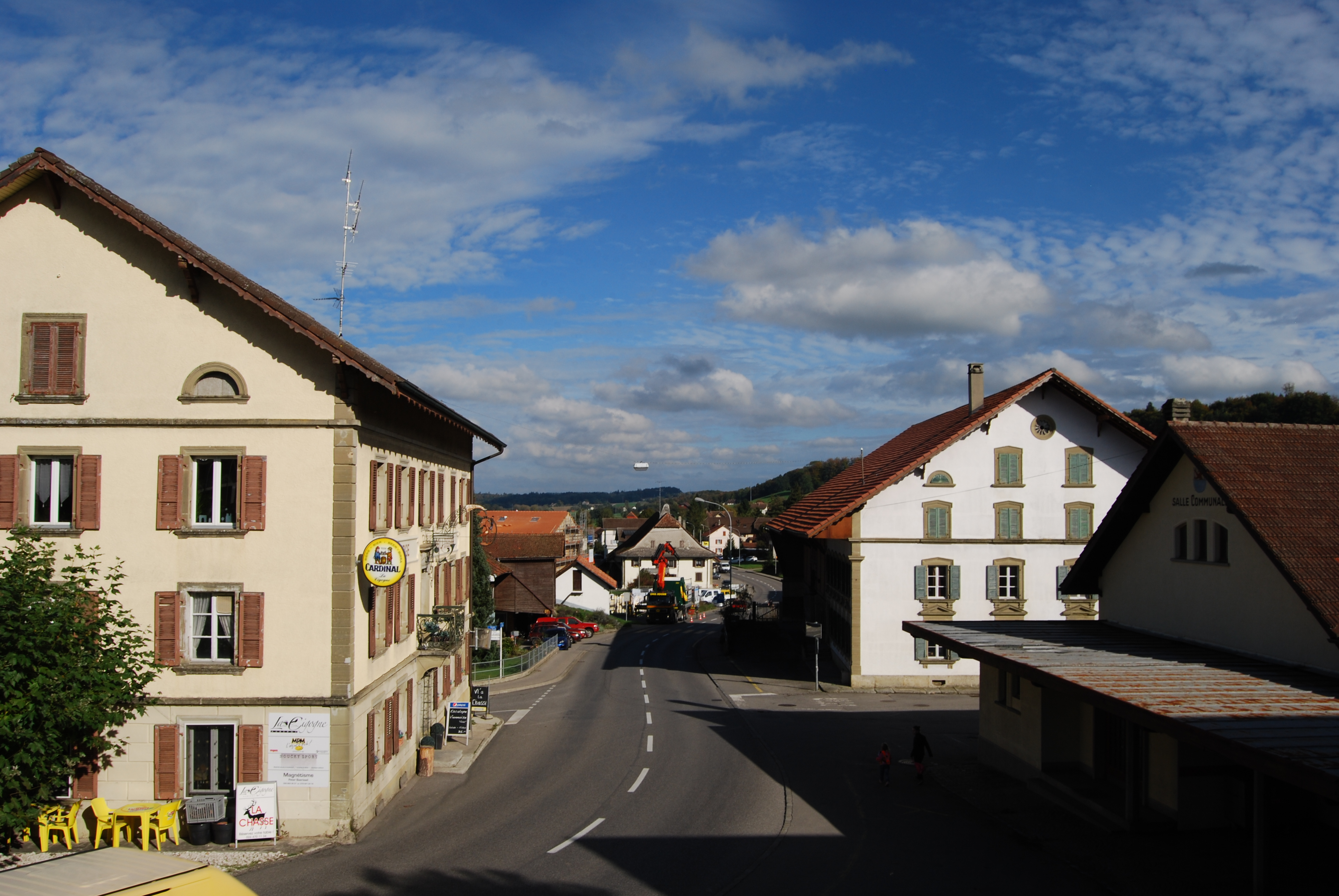 Prez-vers-Noréaz, canton of Fribourg, SwitzerlandEsperanto: Prez-vers-Noréaz, Kantono Friburgo, Svislando